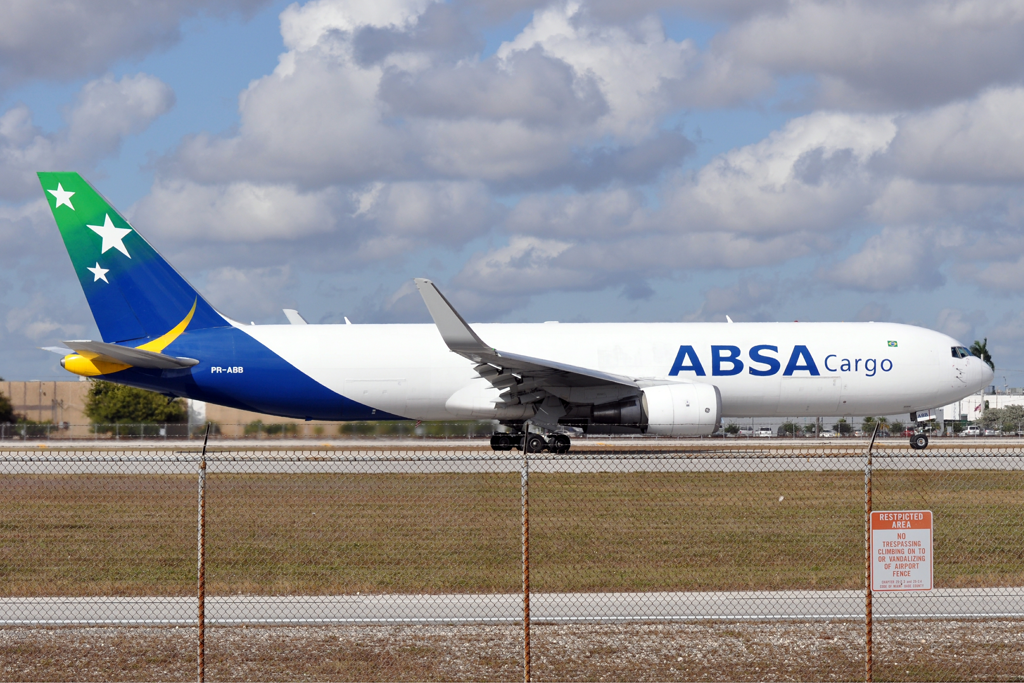 MSN 29881 B767-316 FER ABSA CARGO MIA